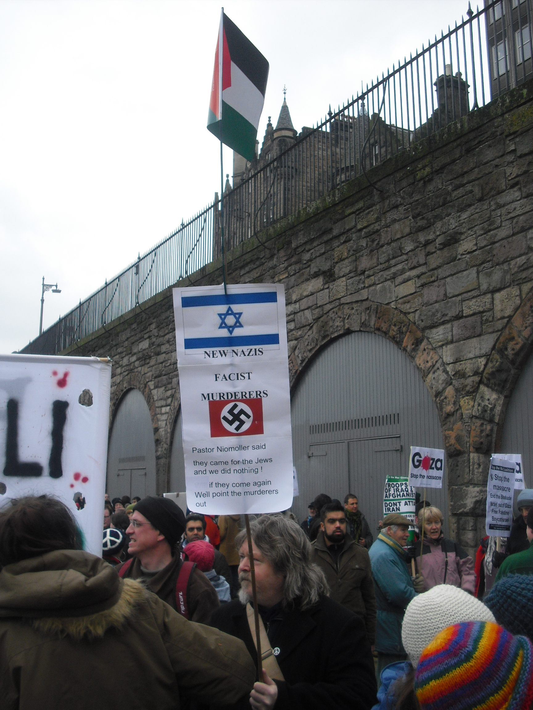 Protest in Edinburgh against Israeli war on Gaza Strip 10 1 2009